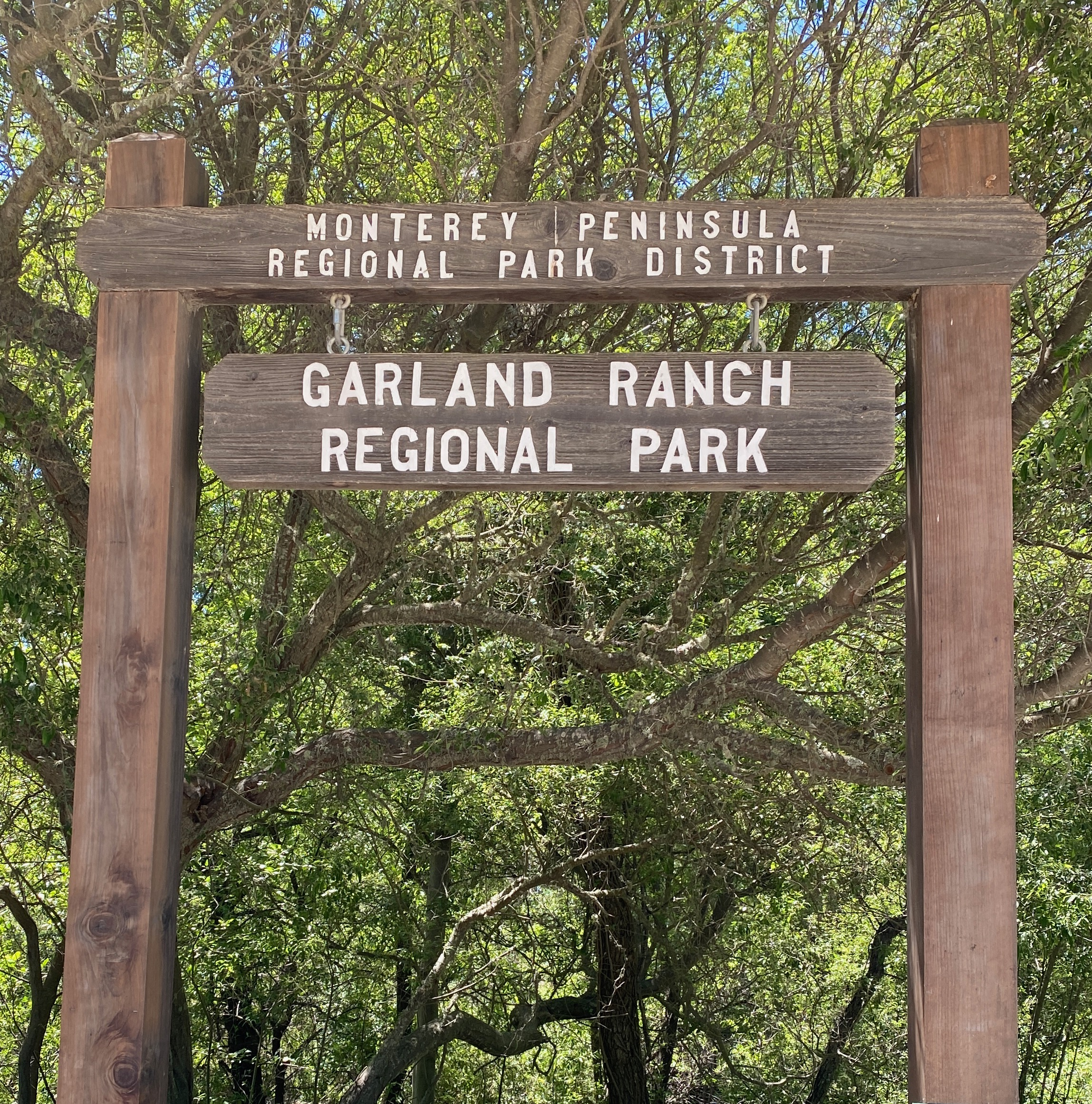 This is the main trailhead for the Garland Ranch Regional Park.